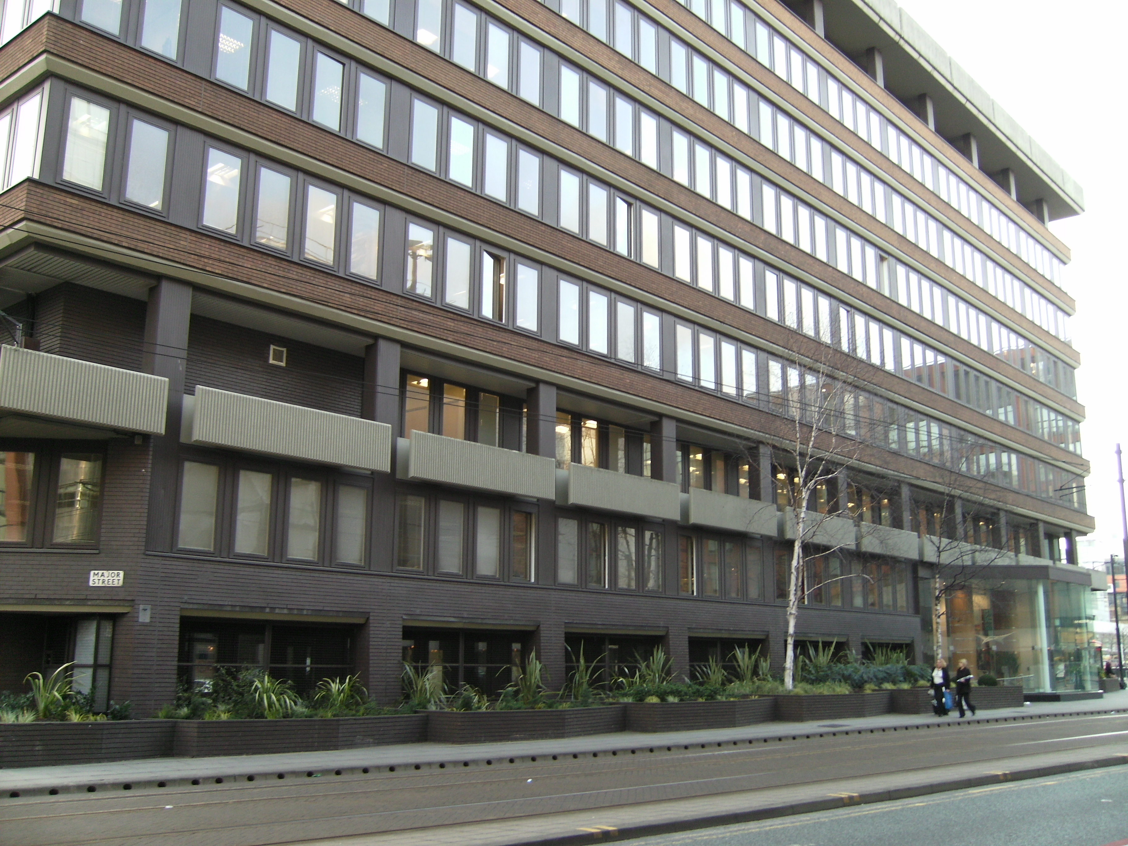 An image of Westminster House in Manchester, England